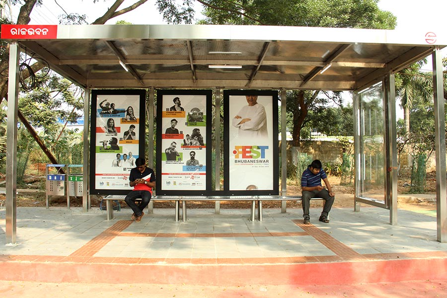 MoBus Rajbhawan Bus stop